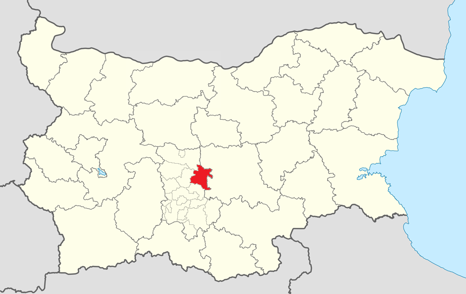 Location map of Brezovo Municipality within Bulgaria and Plovdiv province